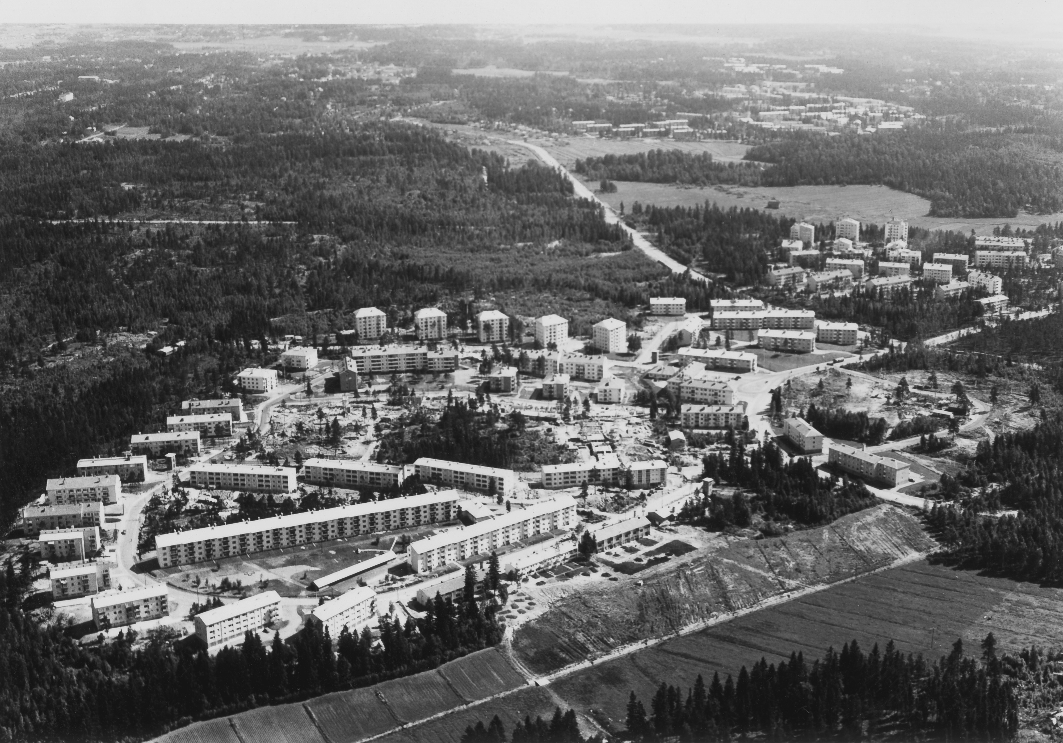 Northern Haaga, Helsinki